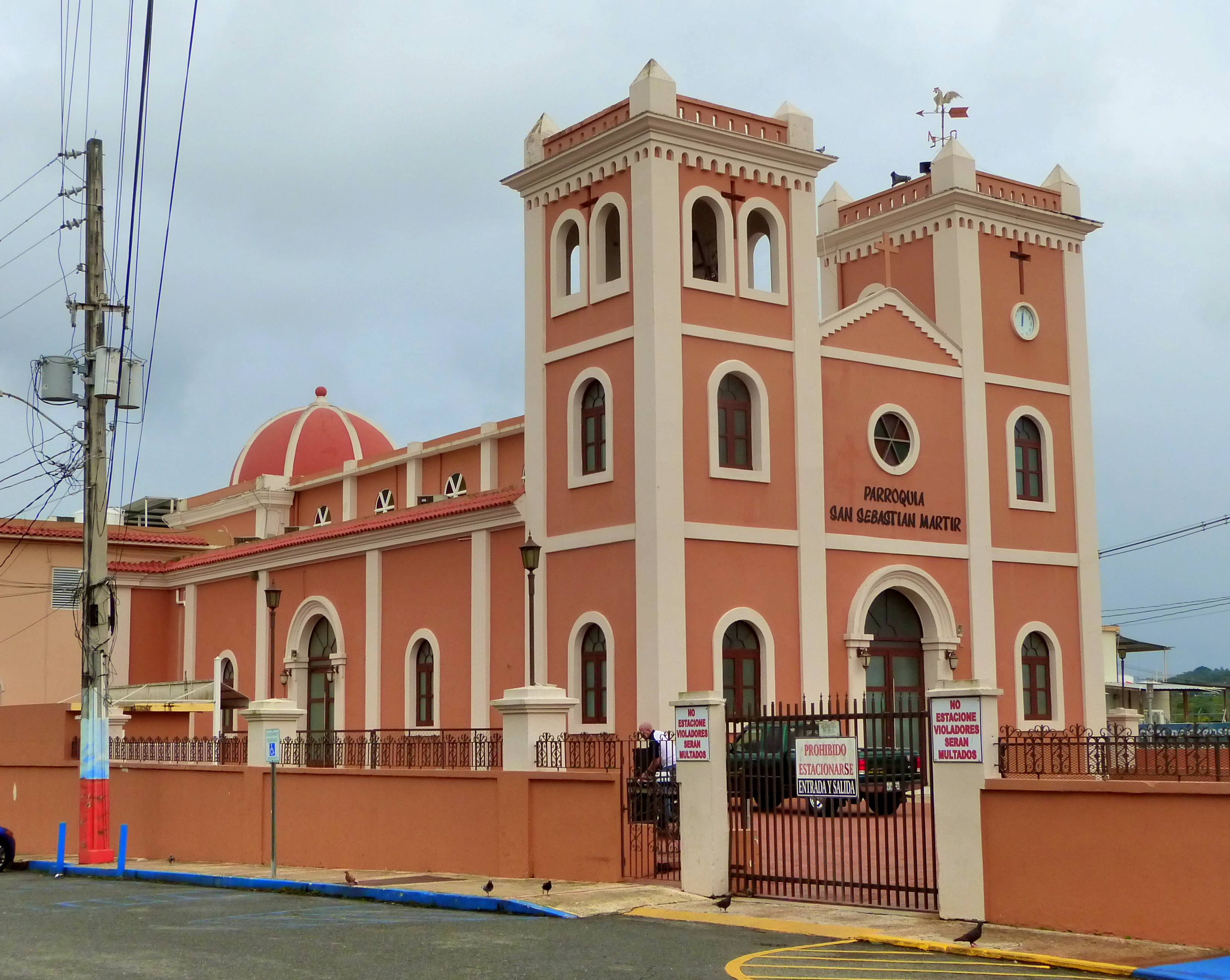 The historic Church of Saint Sebastian the Martyr (built 1895–1897), located on the town plaza in San Sebastián, Puerto Rico, is listed on the U.S. National Register of Historic Places.